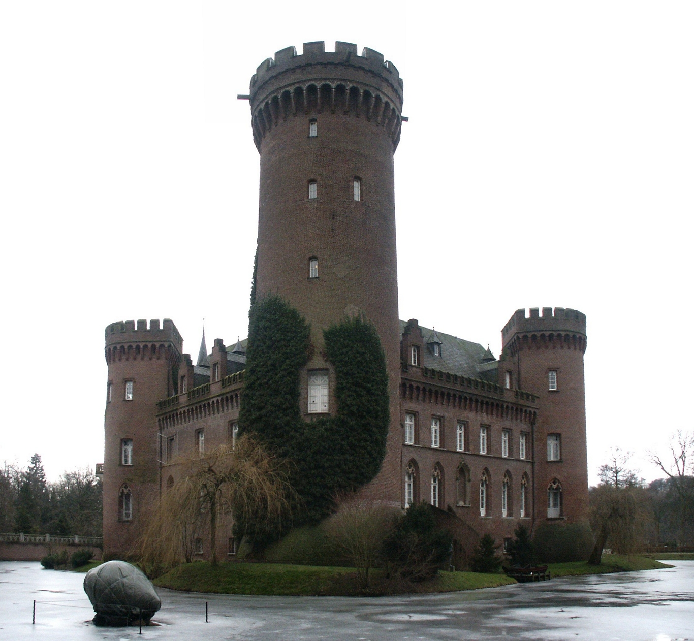 Castle Moyland (nearby Bedburg-Hau, Germany), with keep in front, view from west